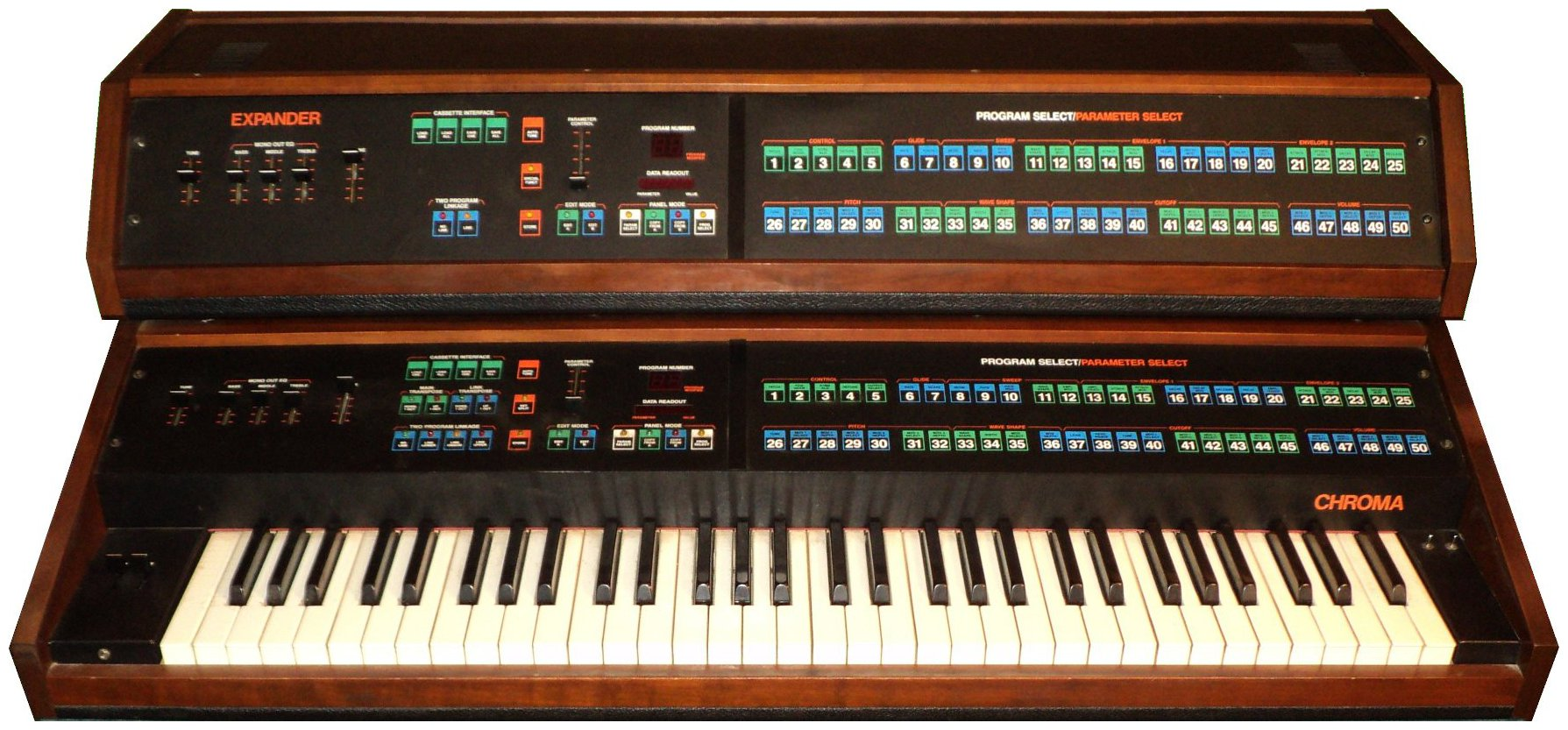 Rhodes Chroma classic analog synthesizer